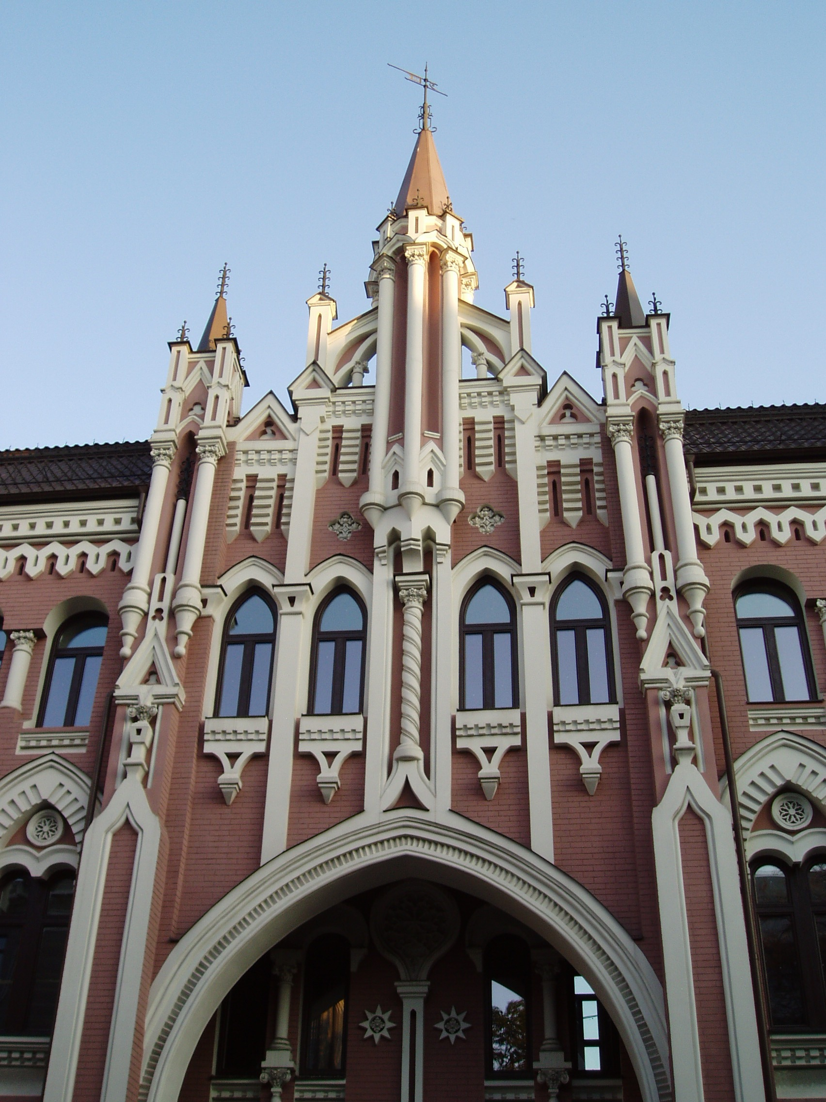 A closer look at the Hildenband mansion in Kyiv, Ukraine